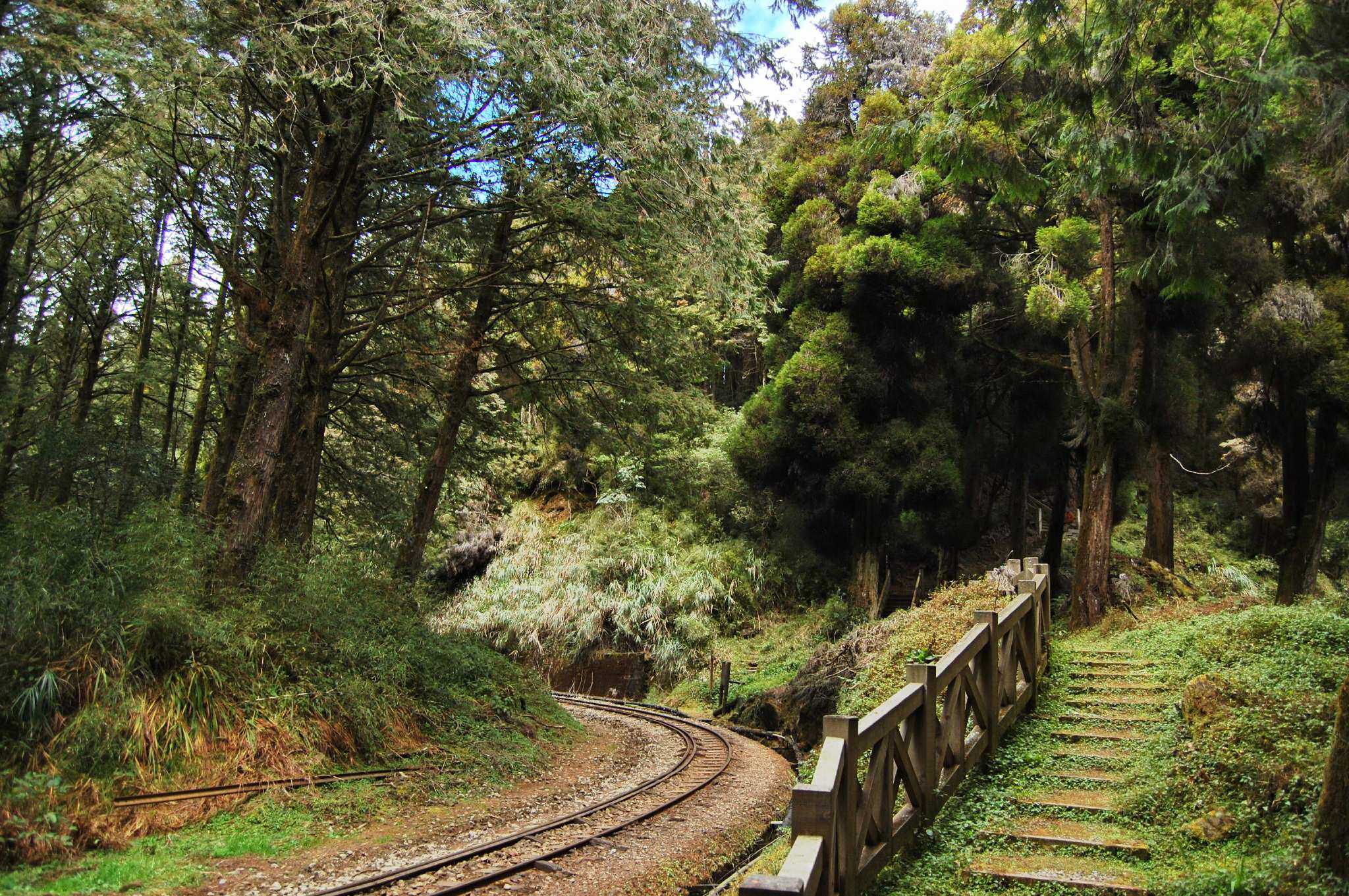 Alishan Forest Railway Mianyuei Line 阿里山森林鐵路眠月線